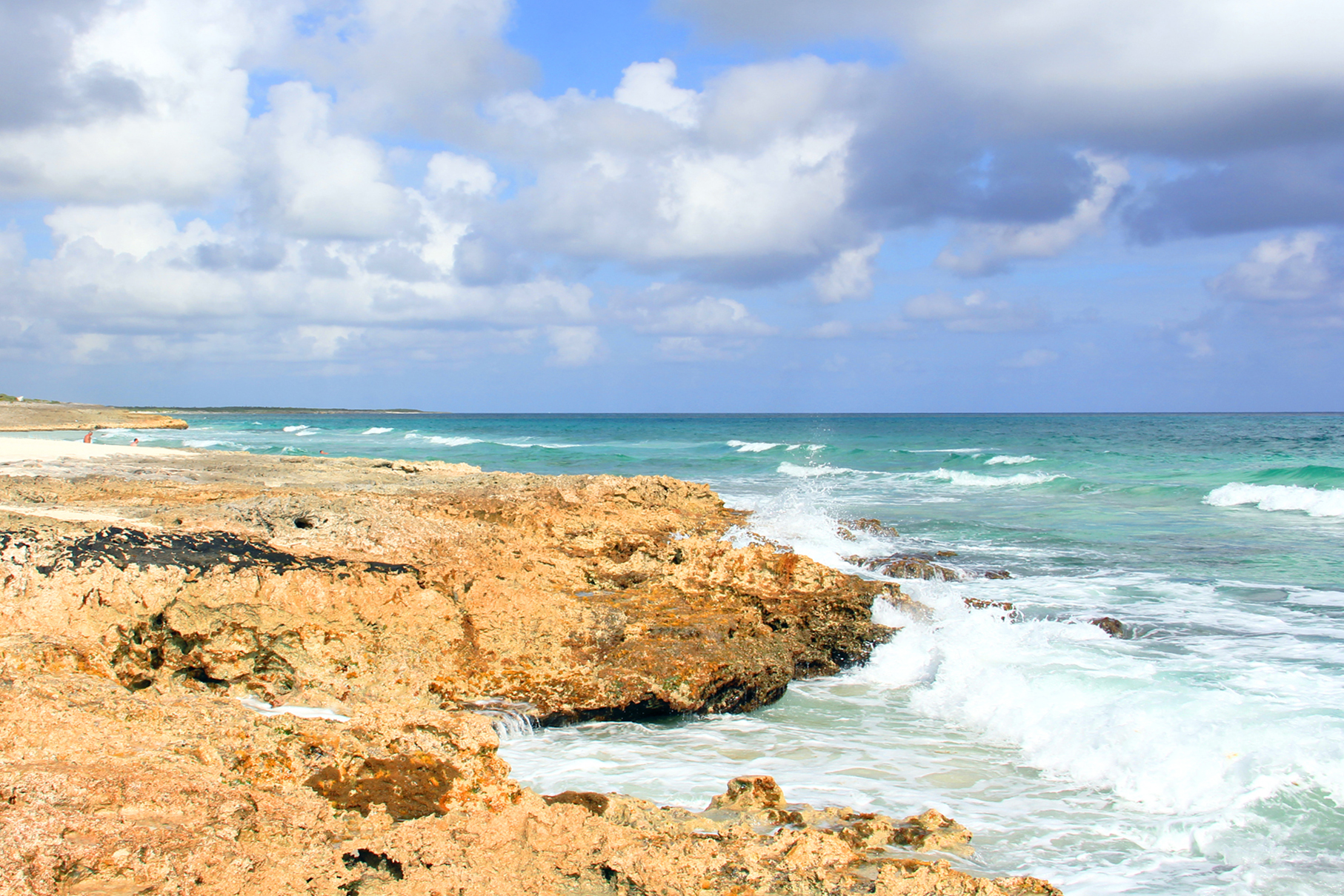 Cozumel Southeast Coast